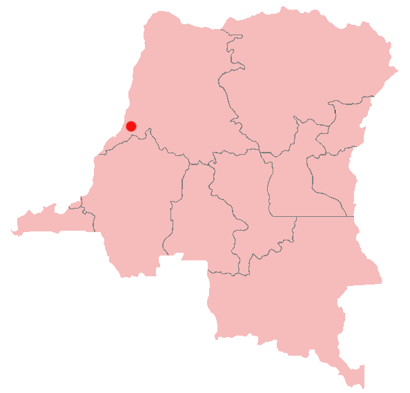 Bikoro, Democratic Republic of the Congo Location Map; created with the GIMP. Made by User:Acntx.